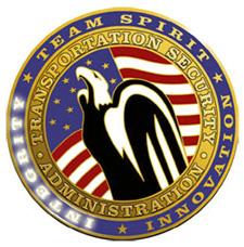 TSA insignia